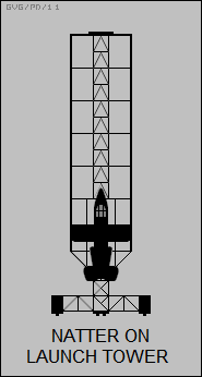 side-view silhouette of the Baachem Ba 349 Natter on its launch tower